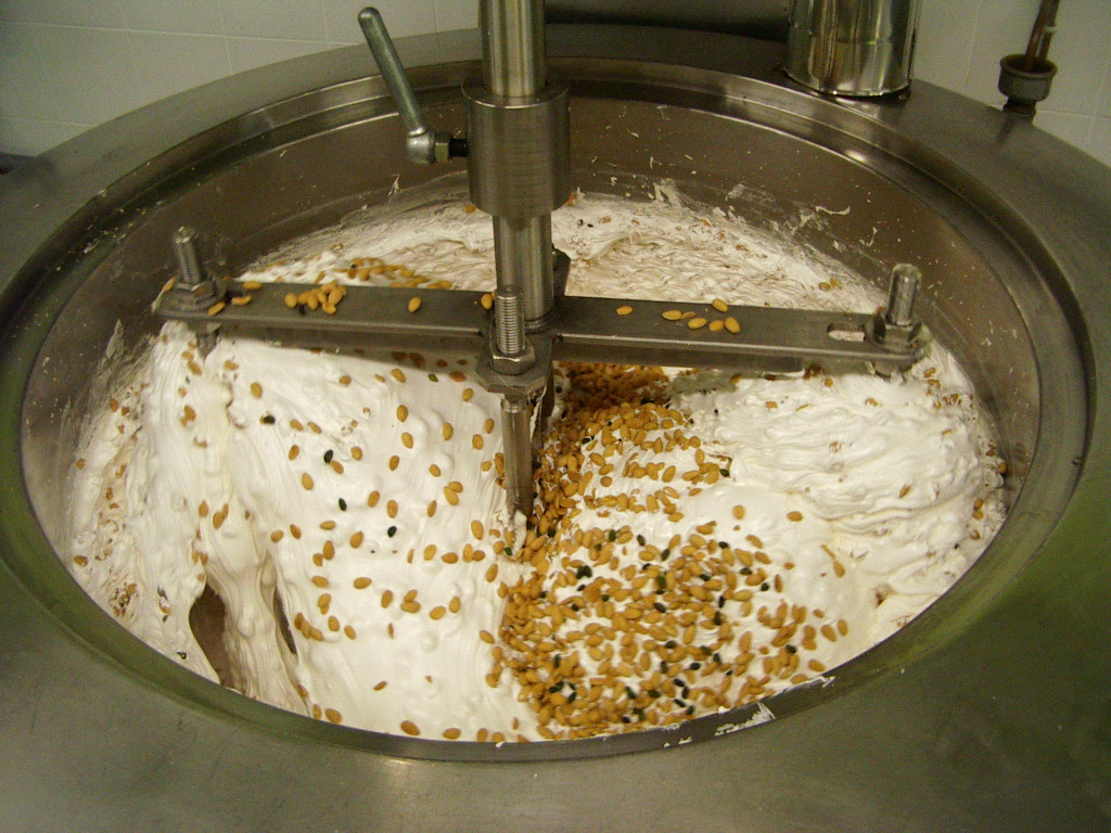 Fabrique artisanale de nougat